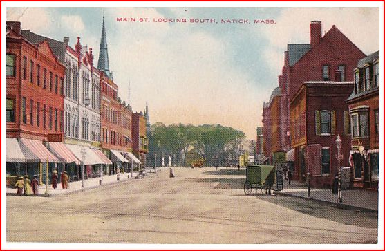 Old postcard, 100 years old or more